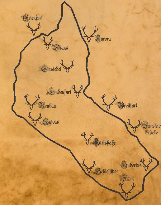 Forester's Houses, Park Houses and Gatehouses in the Fürstlich Löwensteinscher Wildlife Park. Traced from the Topographischer Atlas vom Königreiche Baiern diesseits des Rhein Blatt: 17. Aschaffenburg